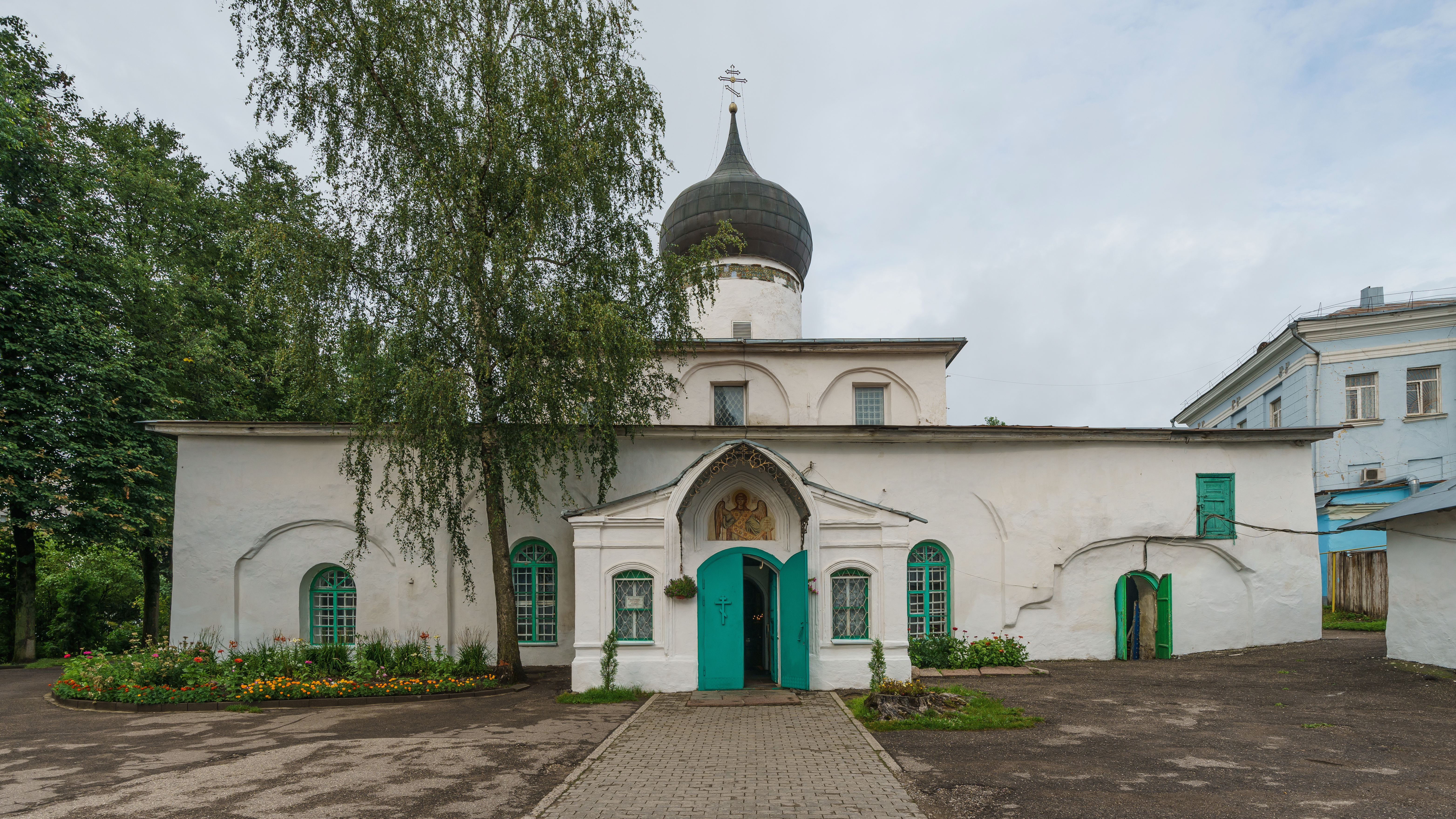 Saints Michael and Gabriel Church in Pskov, Russia